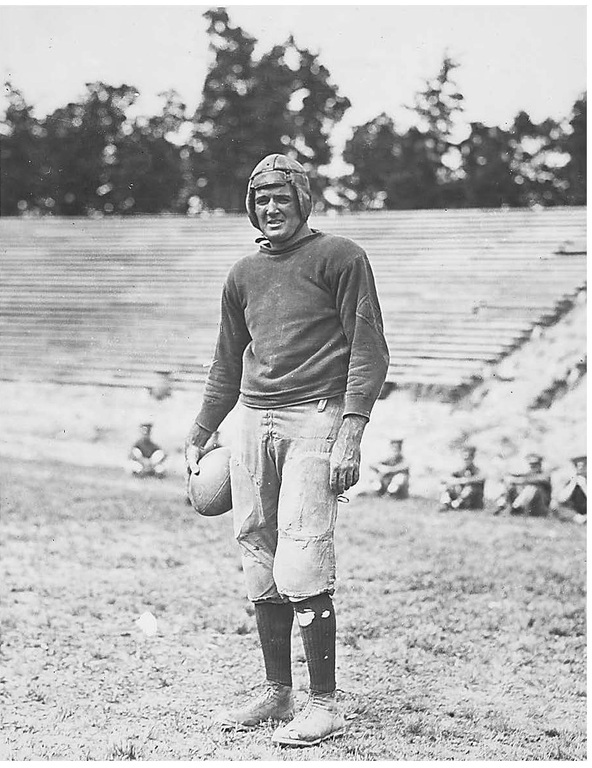 Frank Goettge playing football with the Marines circa 1921, from the United States Marines Corps Museum.